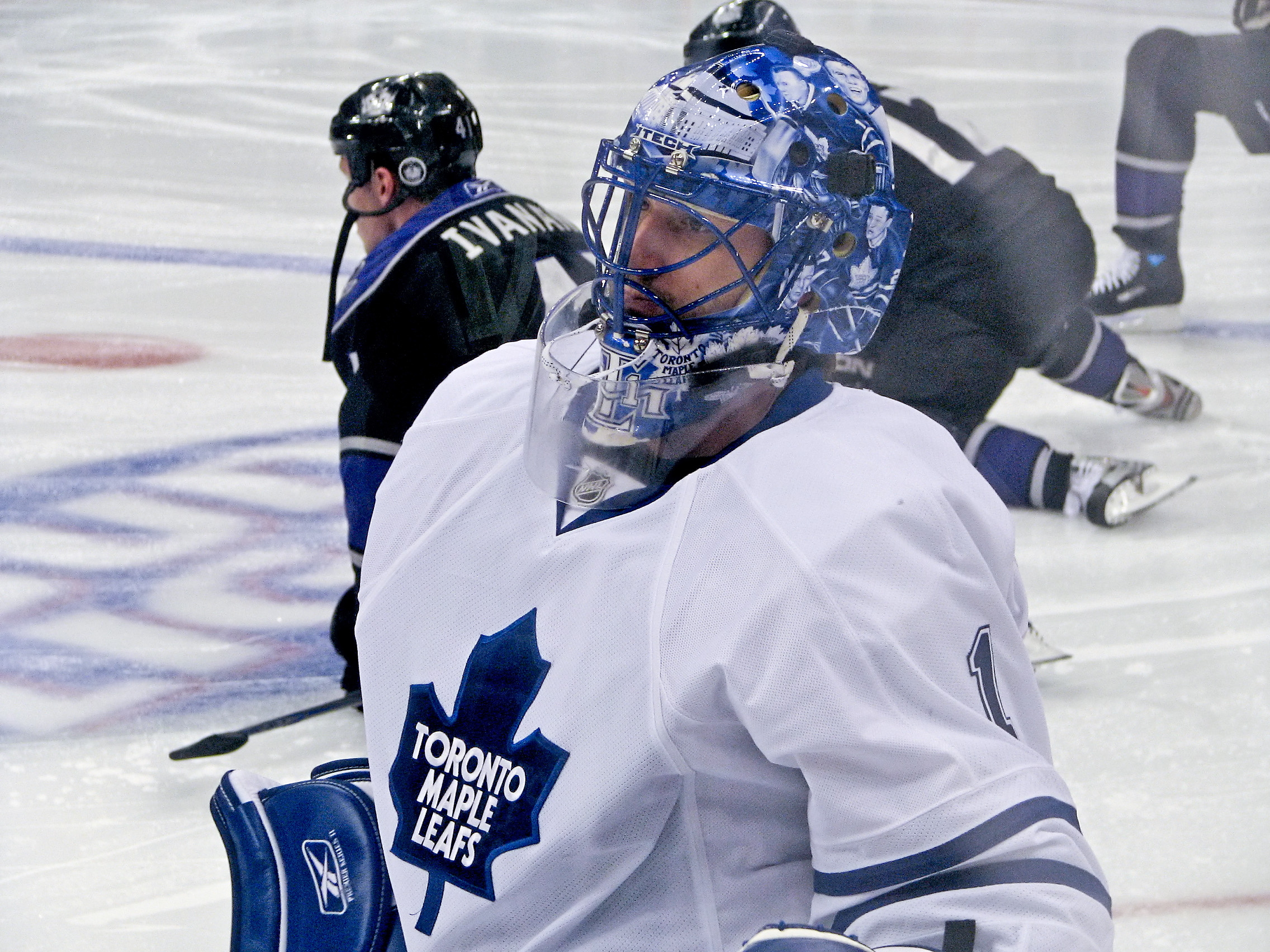 Raycroft warming up in 2008